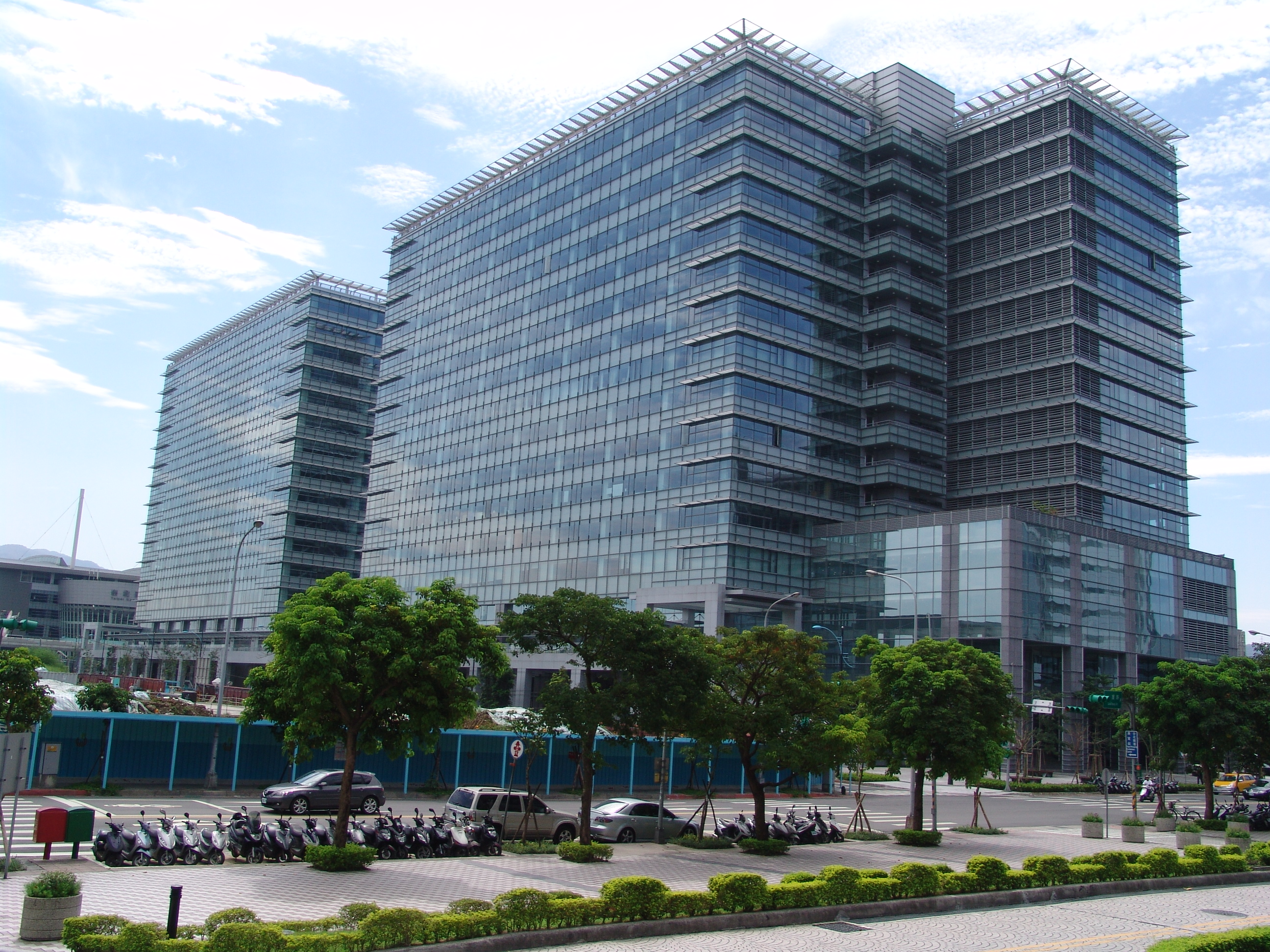 Nankang Software Park, Phase III.中文（台灣）: 南港軟體園區第三期大樓